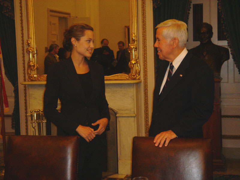 Description: Movie actress Angelina Jolie talking with Senator Dick Lugar of Indiana.